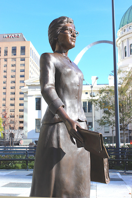 The bronze figure is six feet tall and stands atop a 6-inch bronze base. The St. Louis Arch and the Old Courthouse, where she won her landmark NAACP case, are seen in the background.